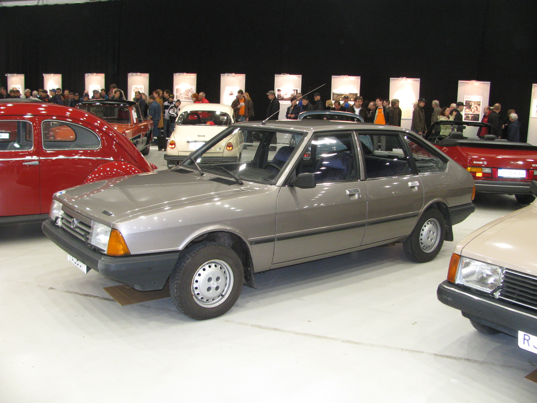 Talbot 1510, Uusikaupunki model, Classic Motor Show in Lahti, Finland.